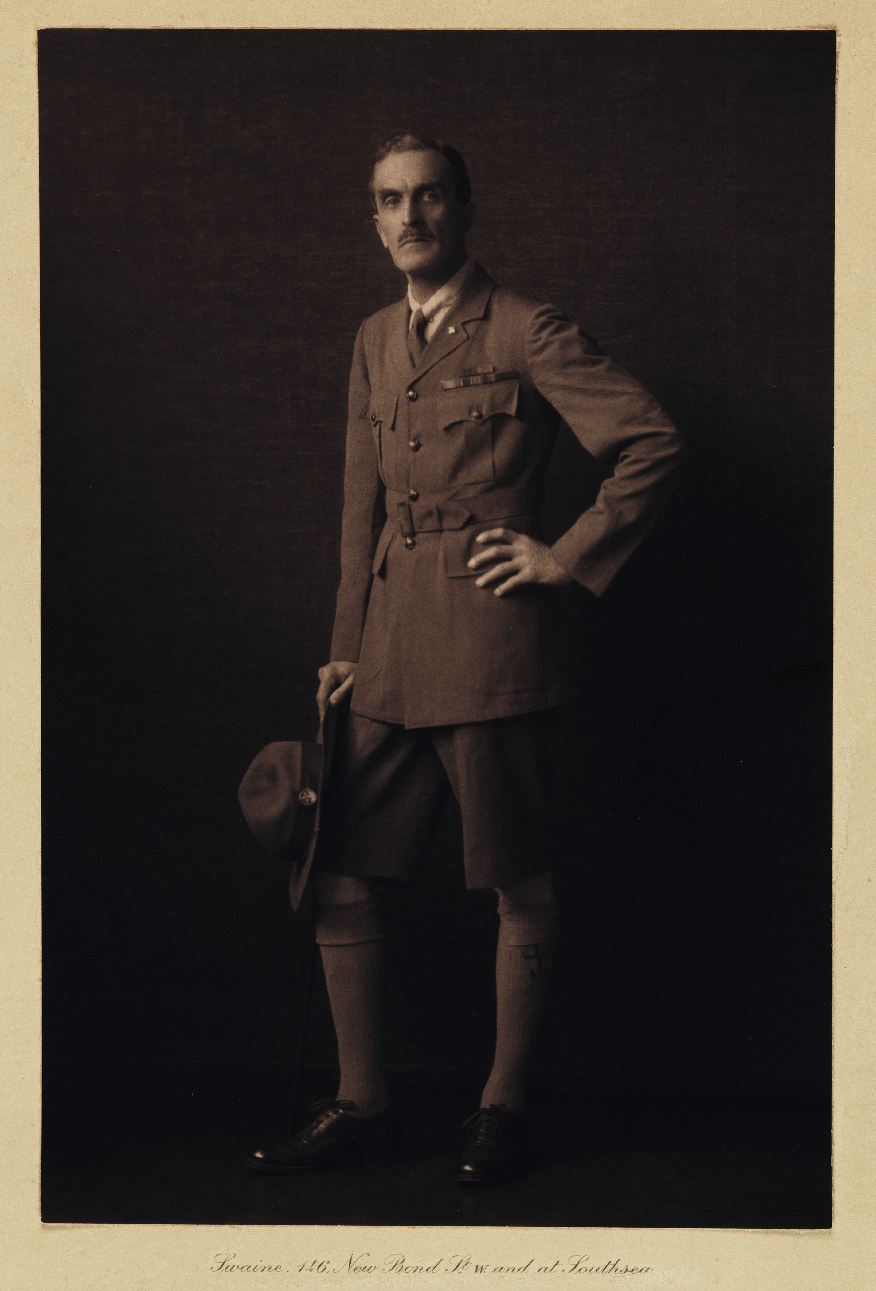 Sir Frederick Gordon Guggisberg, KCMG, DSO, RE, governor and commander-in-chief of the Gold Coast, West Africa - photograph dated 1922